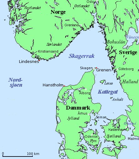 Map of Skagerrak and Kattegat — straits/bays of the North Sea, along Denmark, Norway, and Sweden. The Baltic Sea drains into the Atlantic Ocean through them. Credits Scandinavian place names set by Hallvard Straume. (Mercator-projection, data from 2005.)